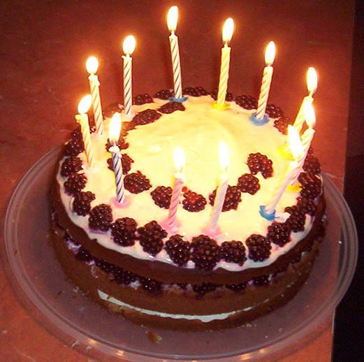 Birthday Cake.